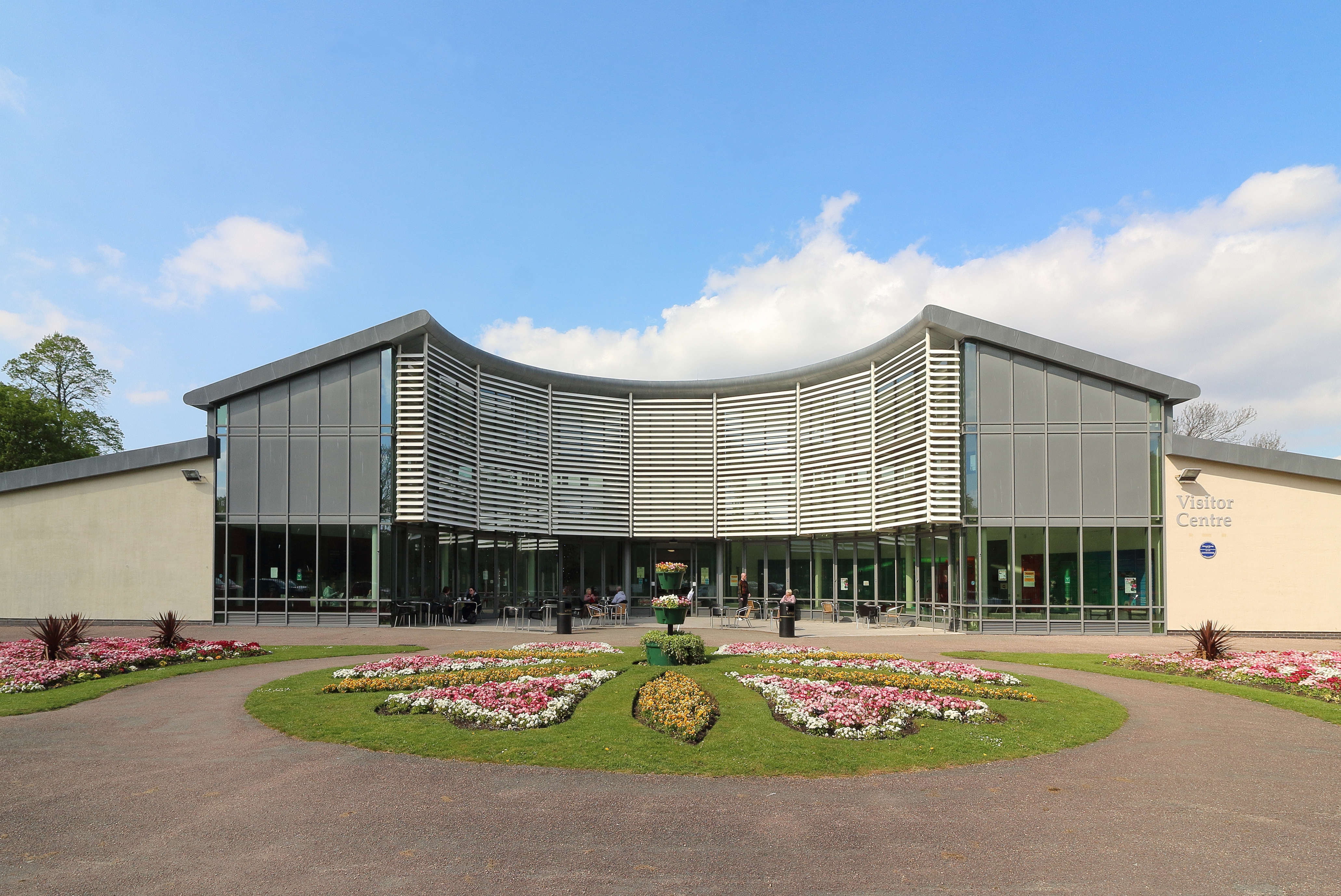 Front view over the flower bed, wider.